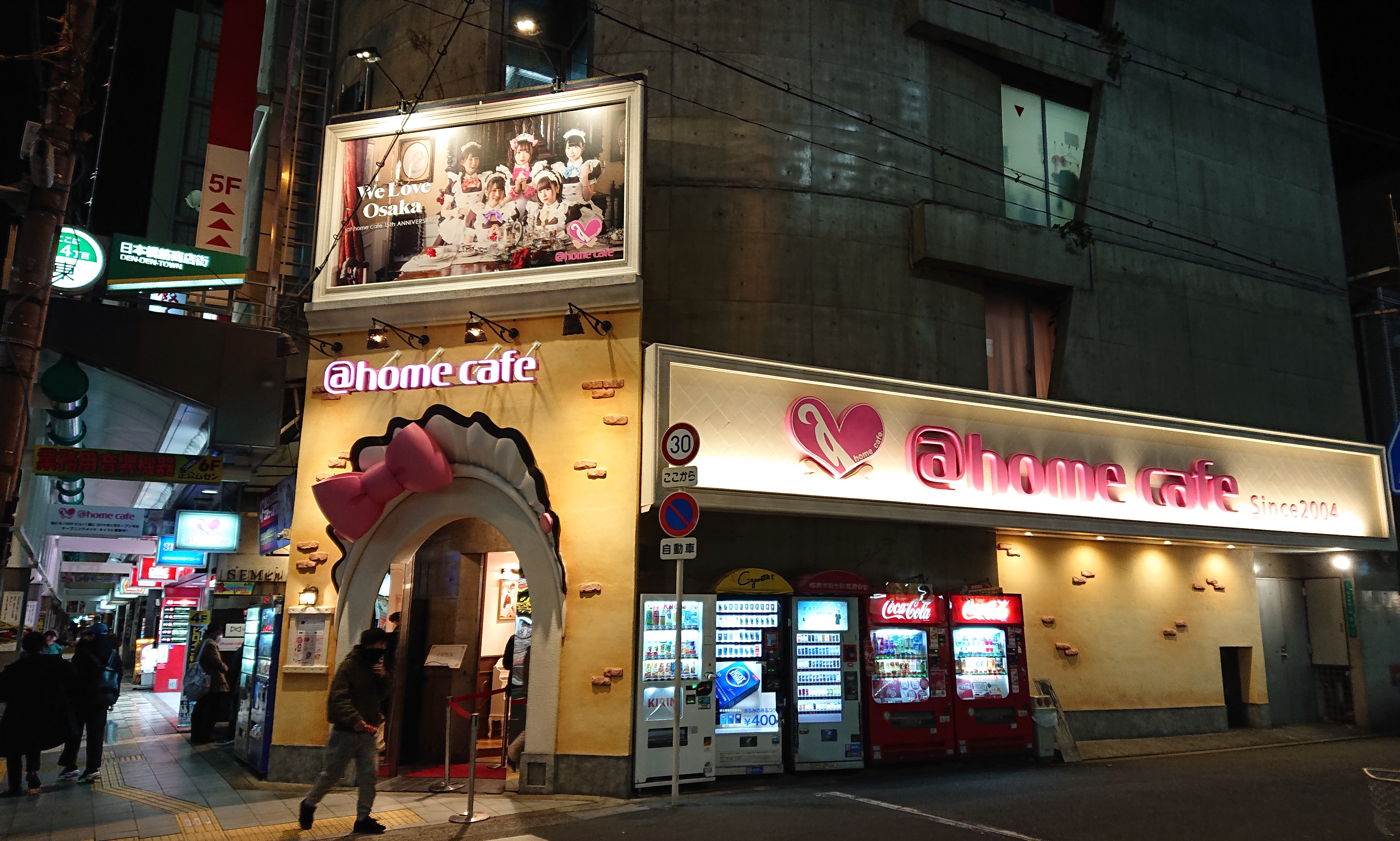 This is @home cafe Osaka shop in Nipponbashi, Naniwa-ku, Osaka, Japan.